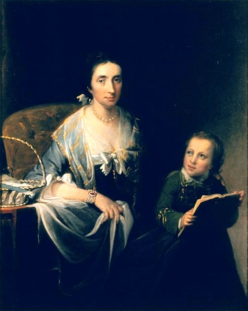 Portrait of Sarah Vaughan née Hallowell, wife of Samuel Vaughan (1720–1802), English merchant.